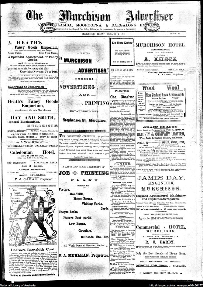 Front pages ofMurchison Advertiser 2 January 1914